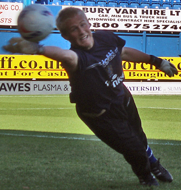 Kasper Schmeichel. Image cropped from original at flickr.